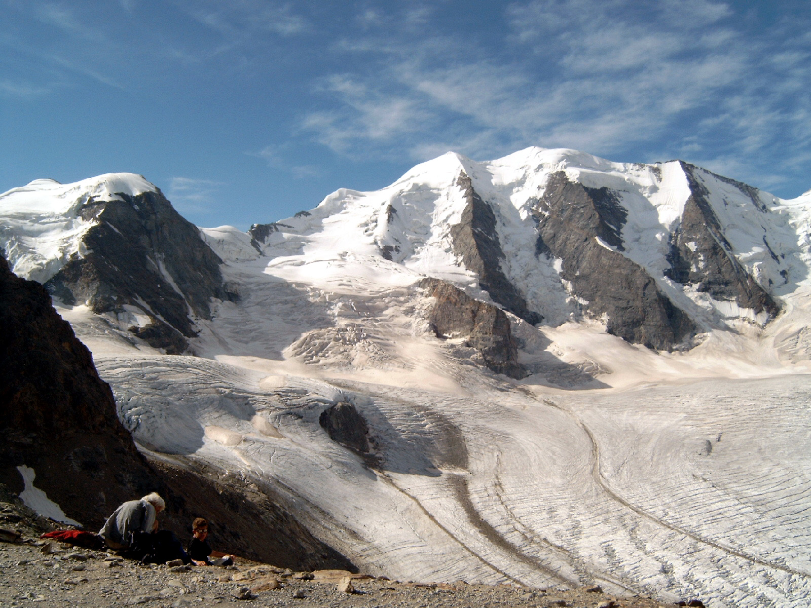 Piz Palü with Vadret da Diavolezza (Diavolezza glacier), Engadin, Switzerland